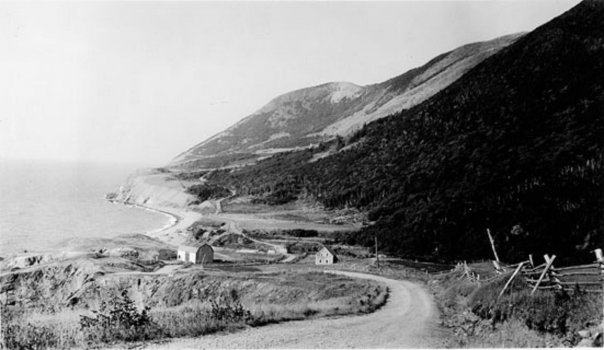 A view of the Cap-Rouge hamlet in Cheticamp, Nova Scotia, before it was abandonned in 1936.